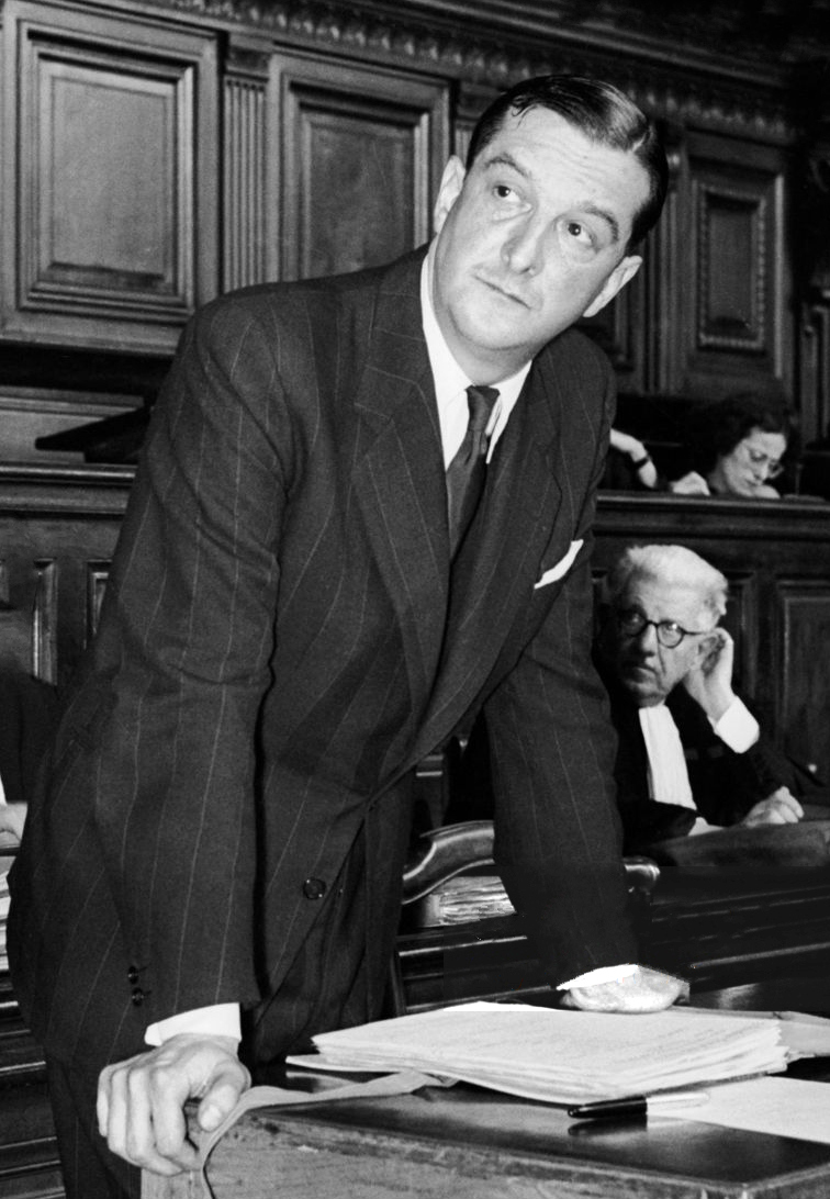 Trial Of The Former Prefet Of Marne, Reginal Prefet Of Champagne And The General Secretary Of The Police Of Vichy And Of Paris Under The Occupation, Before The High Court Of Justice.